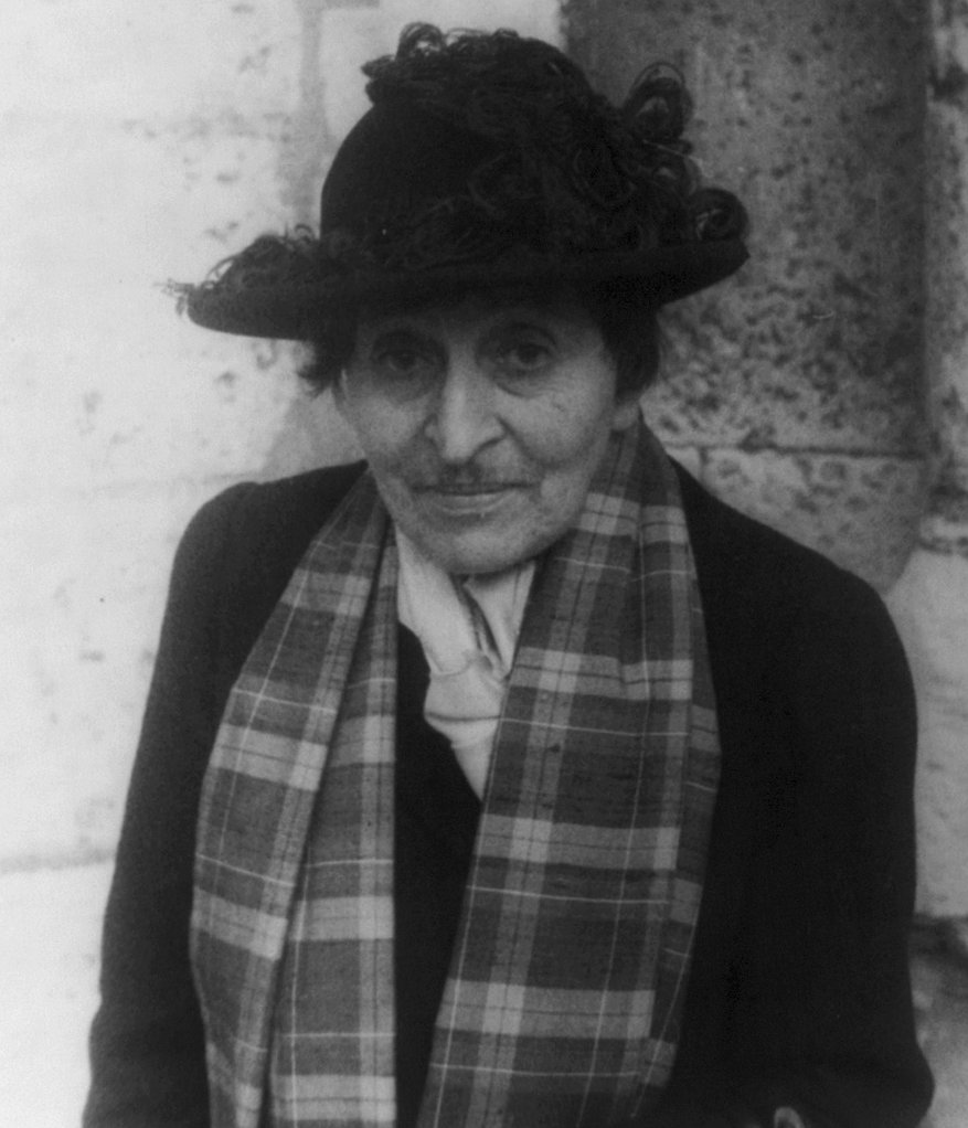 Alice B. Toklas (1877–1967) photographed by Carl Van Vechten, October 8, 1949. Toklas was the lifelong companion of Gertrude Stein.